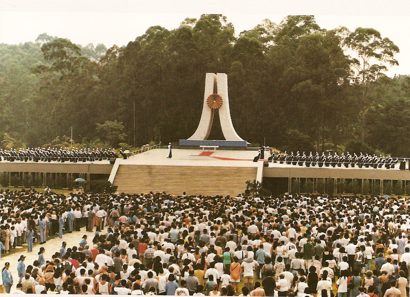 Seiti Brasil photography, religious place from Perfect Liberty Church